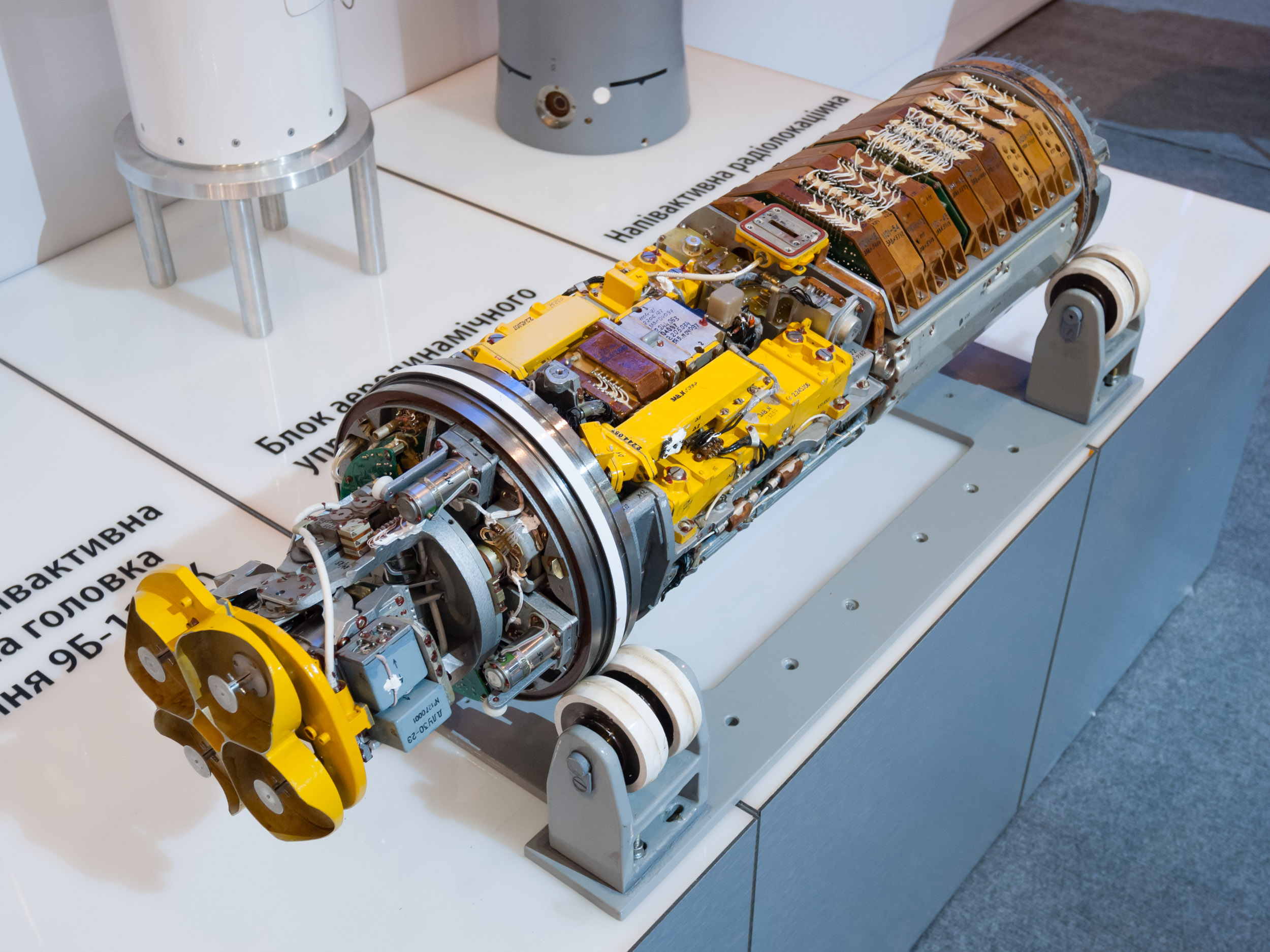 9B-1101K inertial semi-active radar homing head. Used in R-27 air-to-air missile. Produced by Kyiv 'Radar' plant (Ukraine). 'Zbroya ta Bezpeka' military fair, Kyiv, Ukraine, 2018